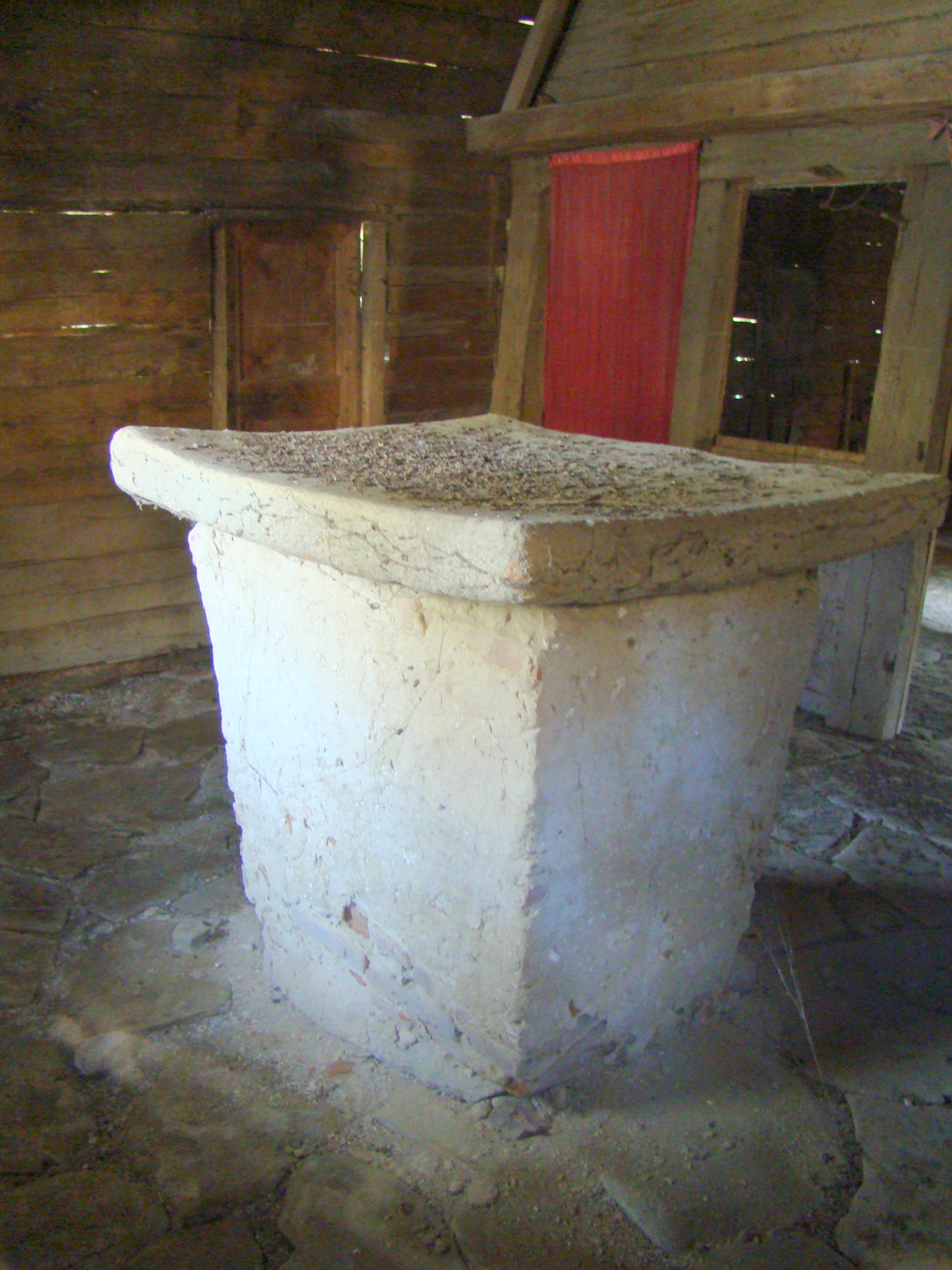 Wooden church in Tupșa, Gorj county, Romania